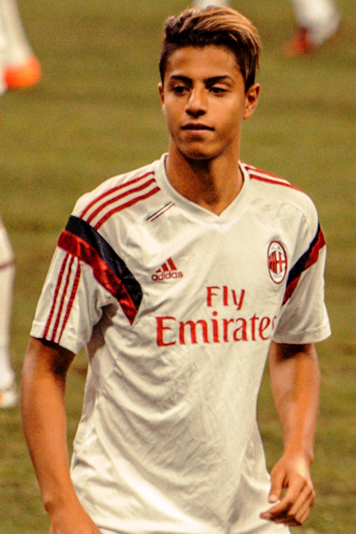 Hachim Mastour and Stephan El Shaarawy warming up for AC Milan.